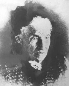 Elizabeth Hickok Robbins Stone, source Colorado Women's Hall of Fame